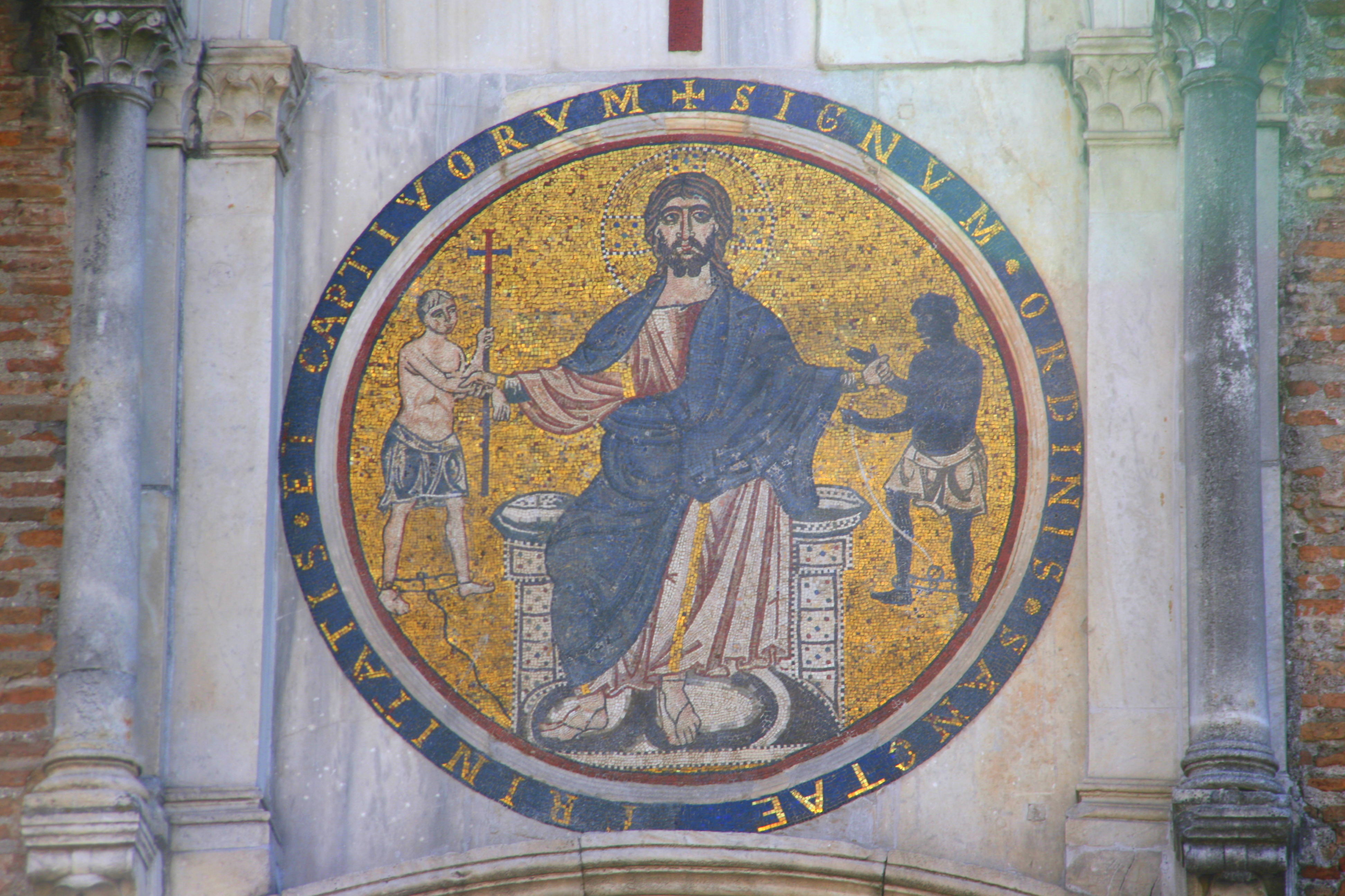 13th Century mosaic by Lorenzo Cosmati outside the Church of San Tommaso in Formis, Rome, Italy